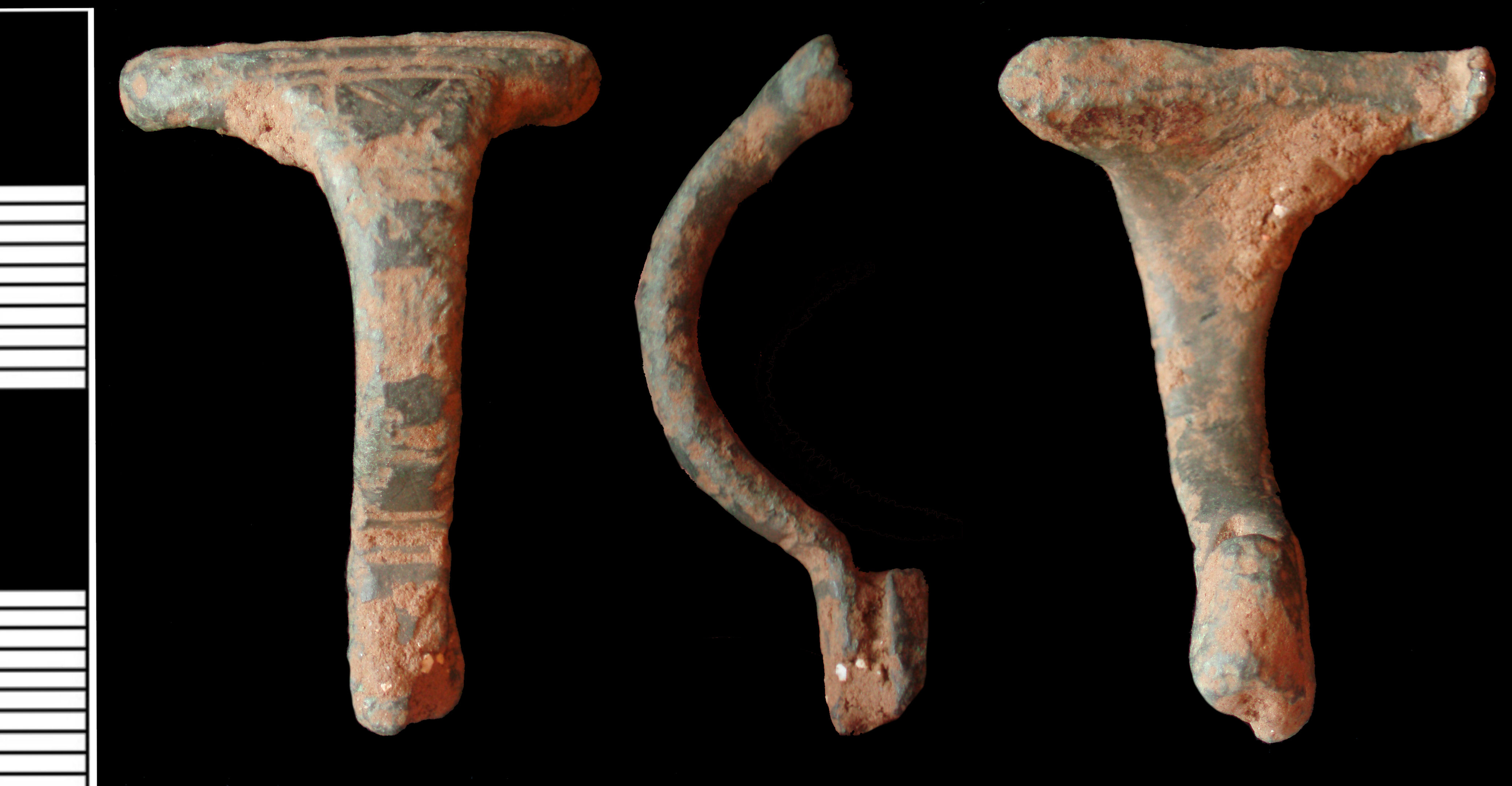 Incomplete Early Medieval supporting arm brooch made from copper alloy. The brooch has a pronounced D-shaped bow, which expands out to form a triangular head. The head is sub-triangular in cross section and measures 24.09mm across; it is 4.79mm thick at the terminals. There is only one surviving projection on the reverse of the head, and this is very worn. The projections would have held the axis bar for the now-missing pin. The bow has a sub-rectangular cross-section. It is 3.16mm thick, 9.84mm wide at the base of the head, tapering to 4.88mm at the foot. The foot is rectangular, with a complete, curled-over catchplate on the reverse. The brooch is decorated with geometric designs, with three transverse grooves across the head, and a further two grooves at the base of the bow. The brooch is particularly worn on the upper surface of the bow, making it unclear if this element of the brooch was decorated. It has a dull, dark black-green patina. The total length is 34.54mm long, and it is 24.09mm wide and 12.39mm thick. Böhme (1974) divided the form into two sub-types based on the width of the head; his work was summarised in English by Evison (1977). This brooch falls between Böhme's Typ Mahndorf (head width 25-30mm) and his Typ Perlberg (head width 12-22mm) but its narrow foot perhaps suggests that it is closer to the latter type. Supporting-arm brooches appear to date from the mid 5th century.